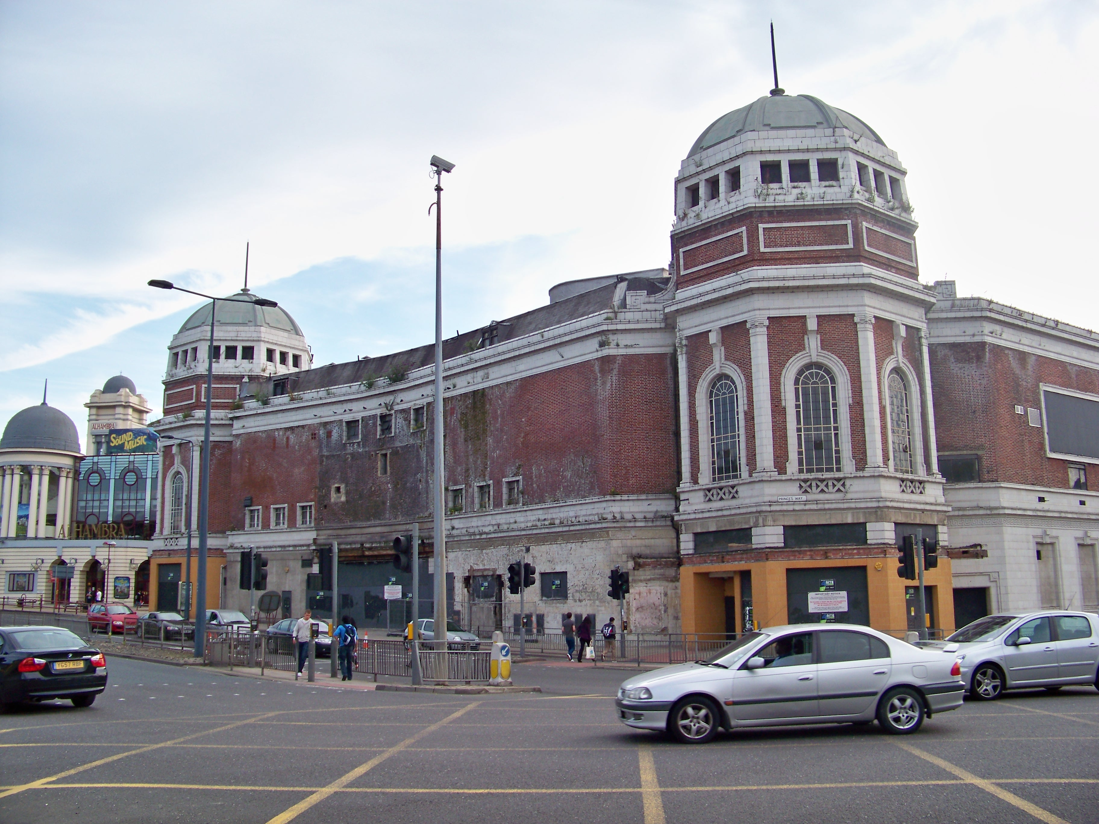 Disused cinema in Bradford, West Yorkshire, England. It was built in 1930 as the New Victoria, renamed Gaumont in 1950, closed in 1968 and sold to Odeon Cinemas. Odeon divided it into a two-screen complex and reopened it in 1969 as the Odeon, replacing ODeon's own cinema opposite which was demolished in 1968. Odeon added a third screen in 1988 and closed the cinema in 2000.